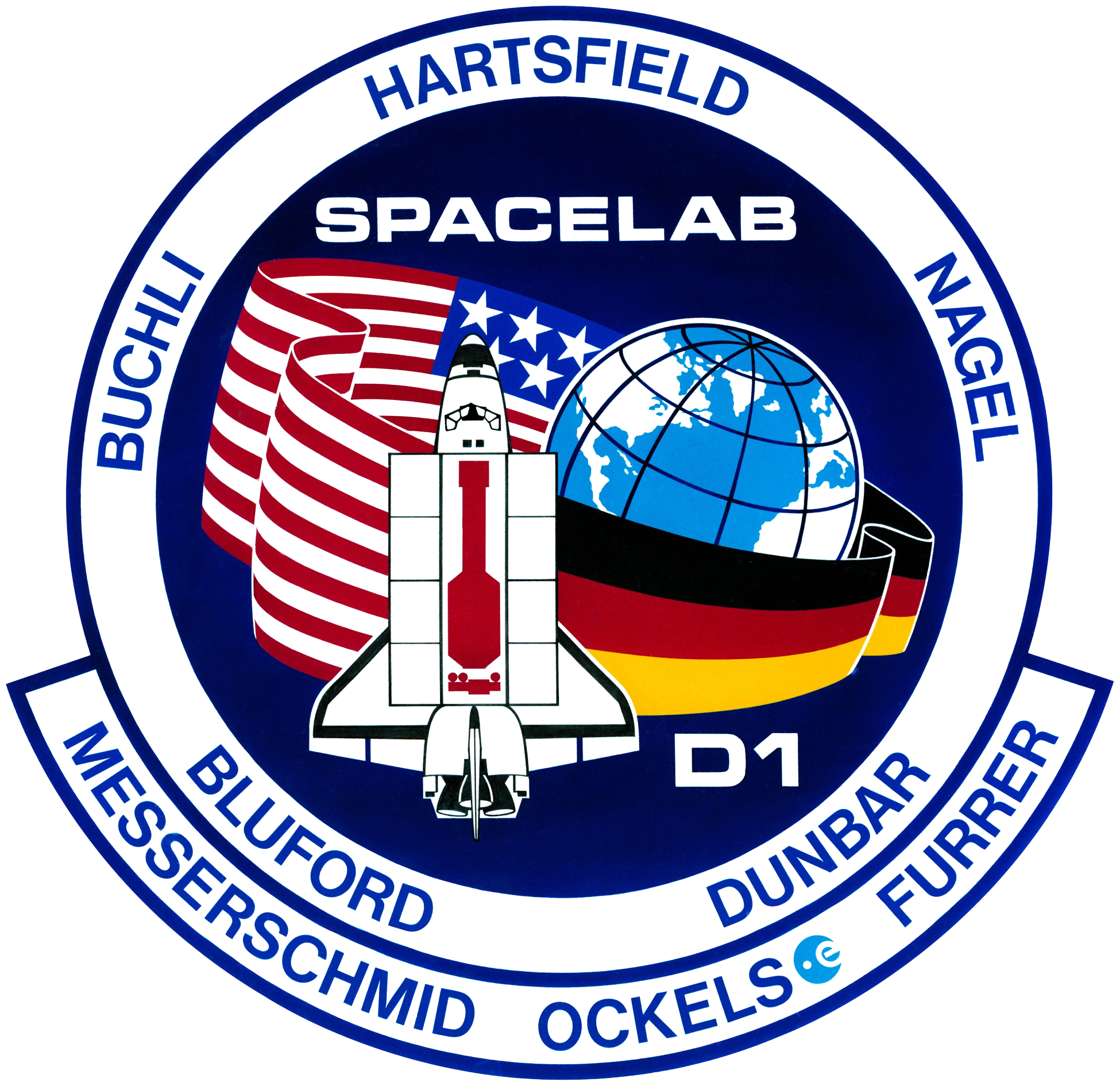 STS-61A Mission Insignia This insignia was chosen by the eight members of the STS-61A/D1 Spacelab mission to represent the record-sized Space Shuttle crew. Crewmembers surnames surround the colorful patch scene depicting Challenger carrying a long science module and an international crew from Europe and the United States.